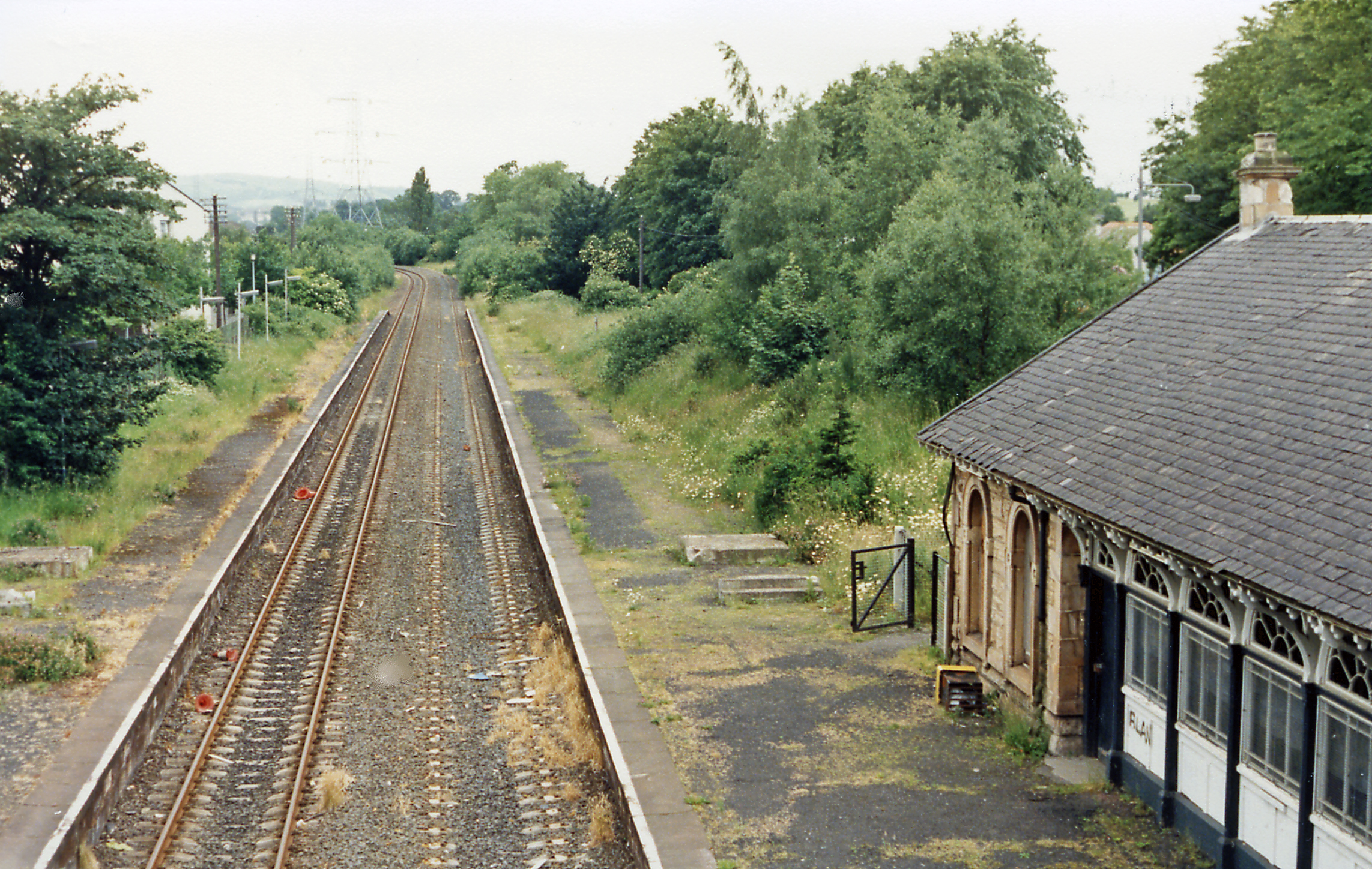 Crookston station (remains), 1986. View westward, towards Paisley: ex-G&SW Glasgow St Enoch (Glasgow Central from 27/6/66) - Paisley Canal line. The station was closed from 10/1/83, but the line remained until c. 1987. The station and the line have been reopened for passengers from 27/7/90.